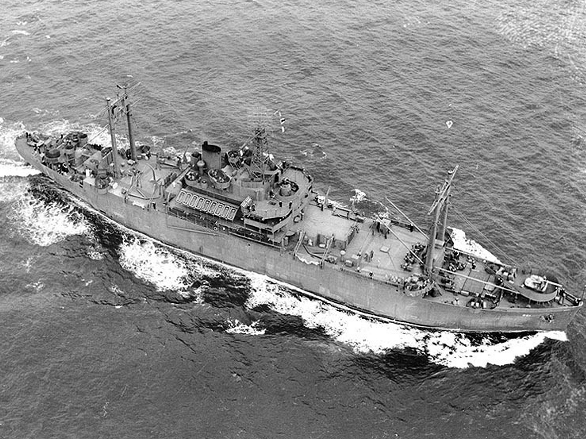 The U.S. Navy amphibious command ship USS Appalachian (AGC-1) underway off the New York (USA) coast, 18 October 1943.